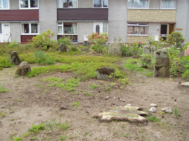 The Sandy Road Stone Circle (possibly relocated) in middle of housing estate.